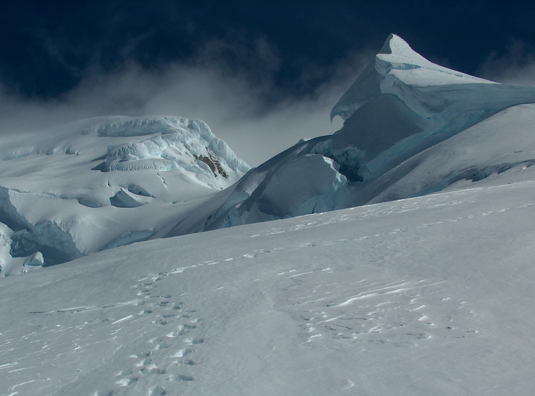 Ongal Peak in Tangra Mountains on Livingston Island, in the South Shetland Islands, with Levski Peak in the background. Viewpoint location: North slopes of Ongal Peak in Tangra Mountains on Livingston Island, in the South Shetland Islands Viewpoint elevation: 940 meters Camera: HP PhotoSmart C945 (V01.54)